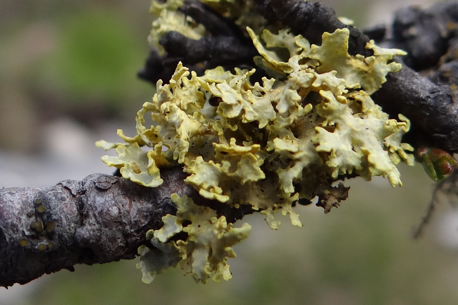 Vulpicida tubulosus (location: Poland, West Tatra Mountains, Czerwone Wierchy, Krzesanica)